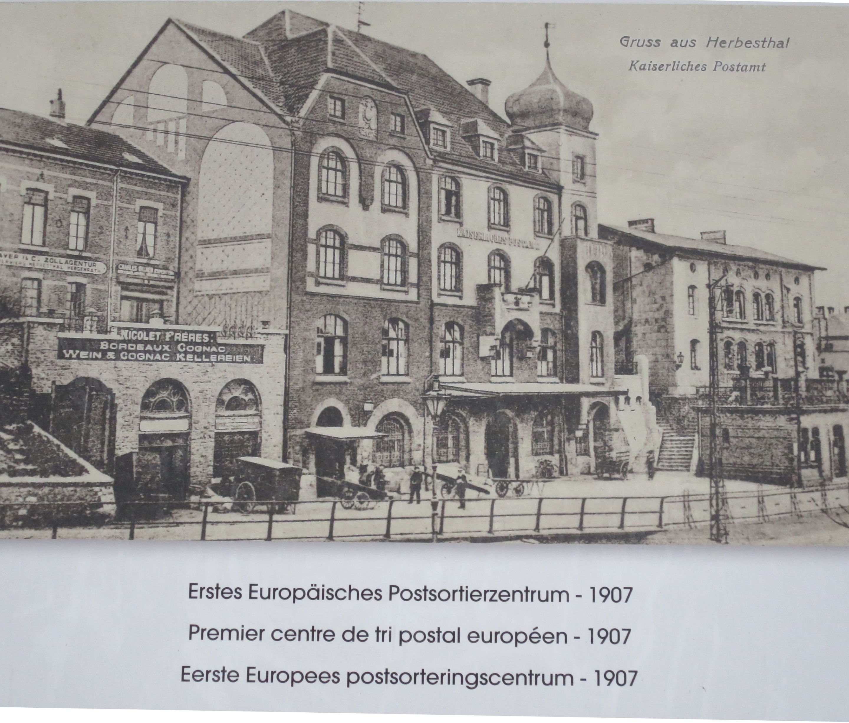 1907 postcard of the mail sorting station placed next to he station building on its western side, and here highlighted as Europe's first [pan-national] mail sorting centre